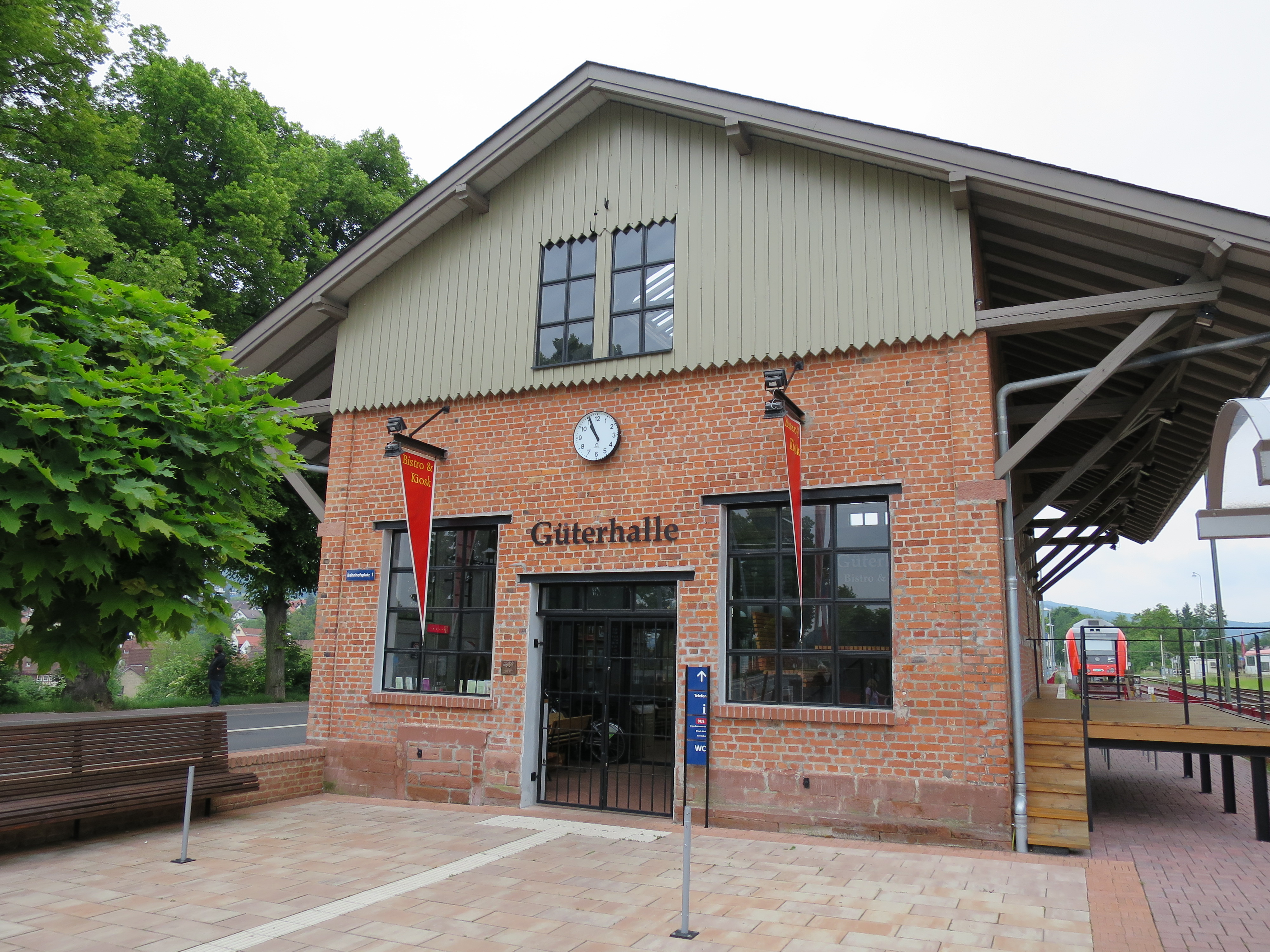 Cargo shed